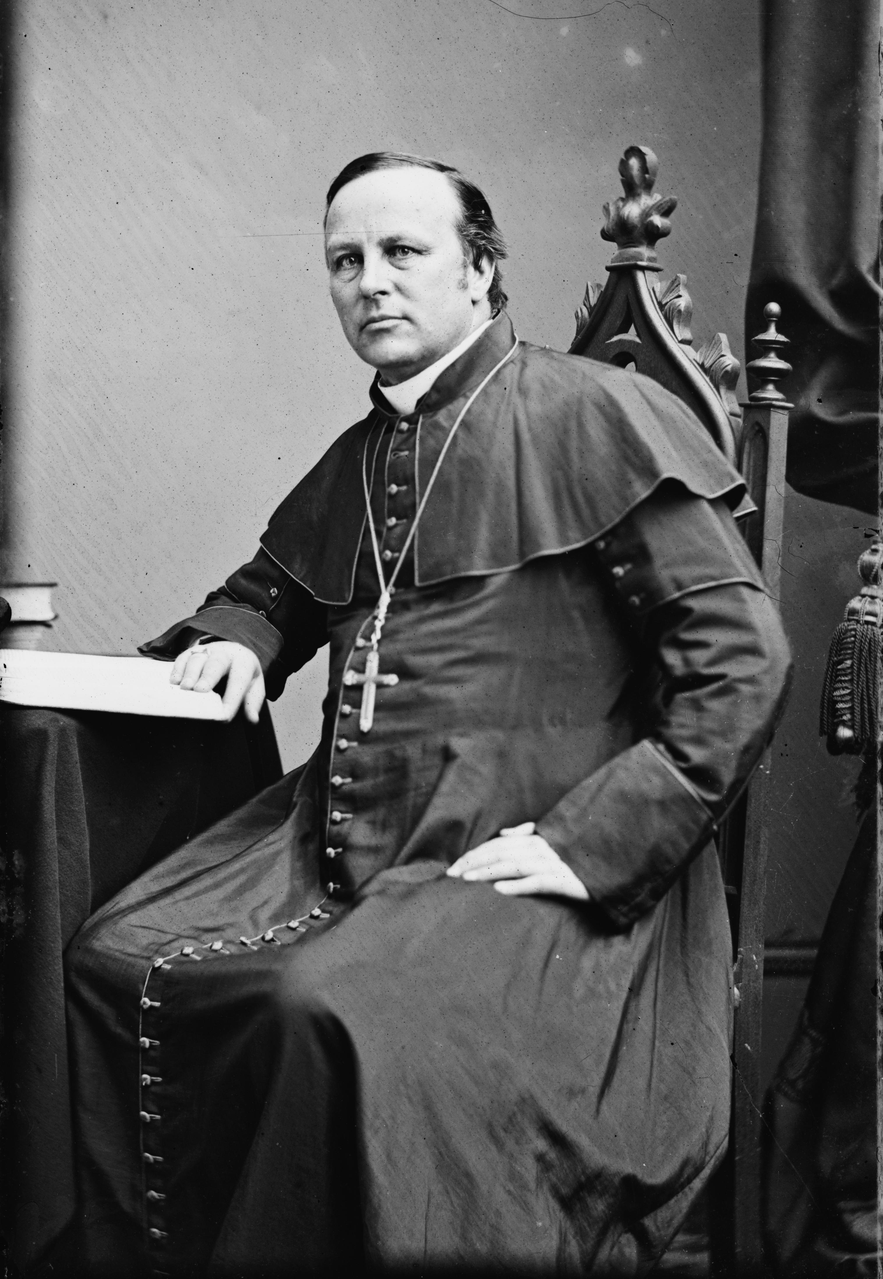 James Roosevelt Bayley. Library of Congress description: "Bishop Bayley"